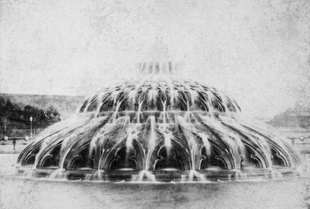 The Plaza Fountain, Calvert Vaux, architect, Grand Army Plaza